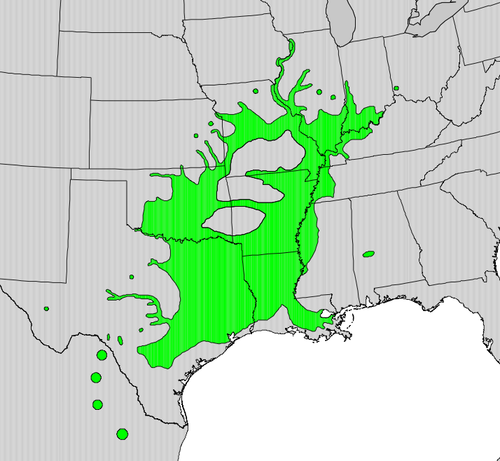 Range map of Carya illinoinensis